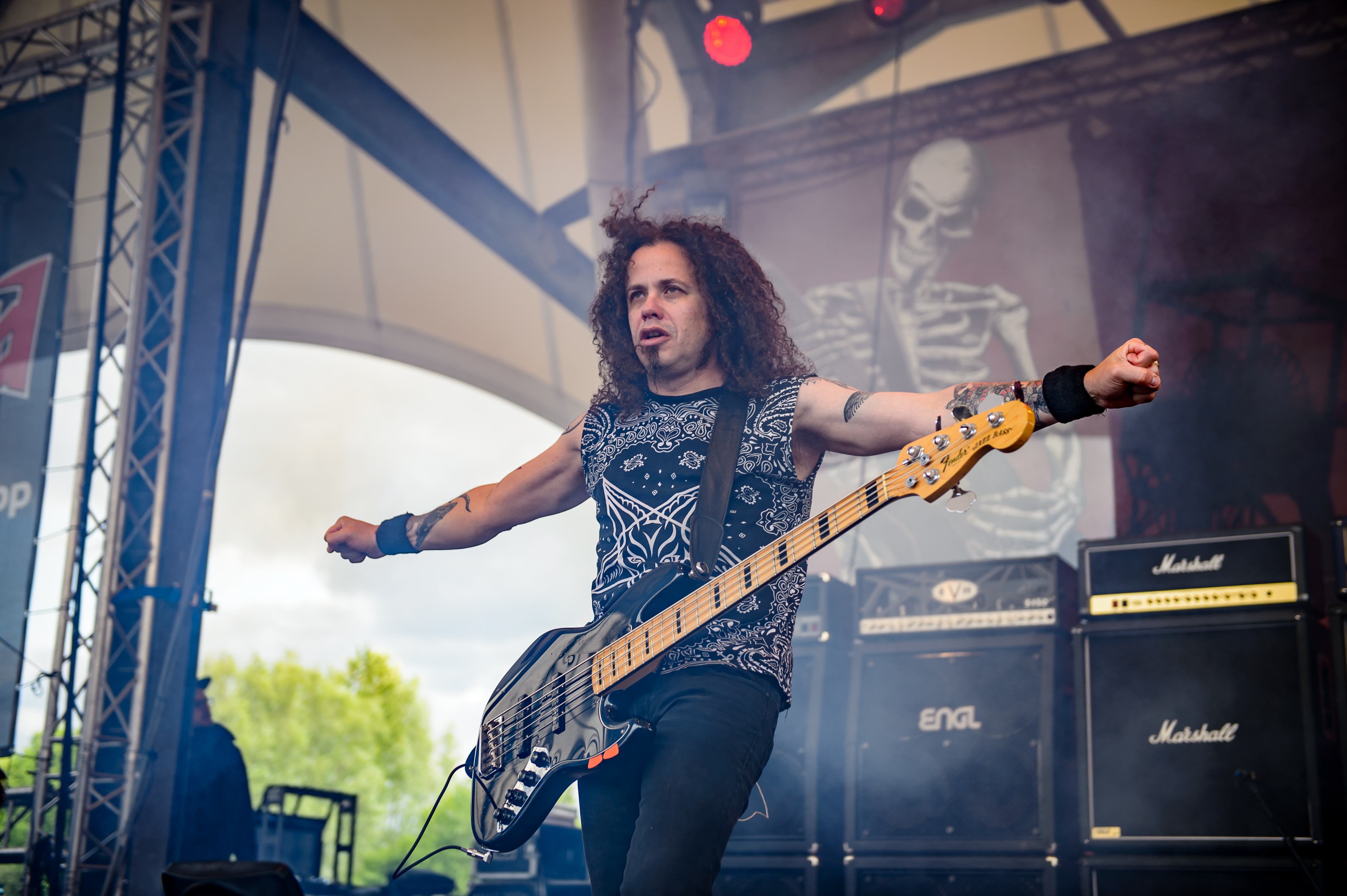 Moonspell; RockHard Festival 2016